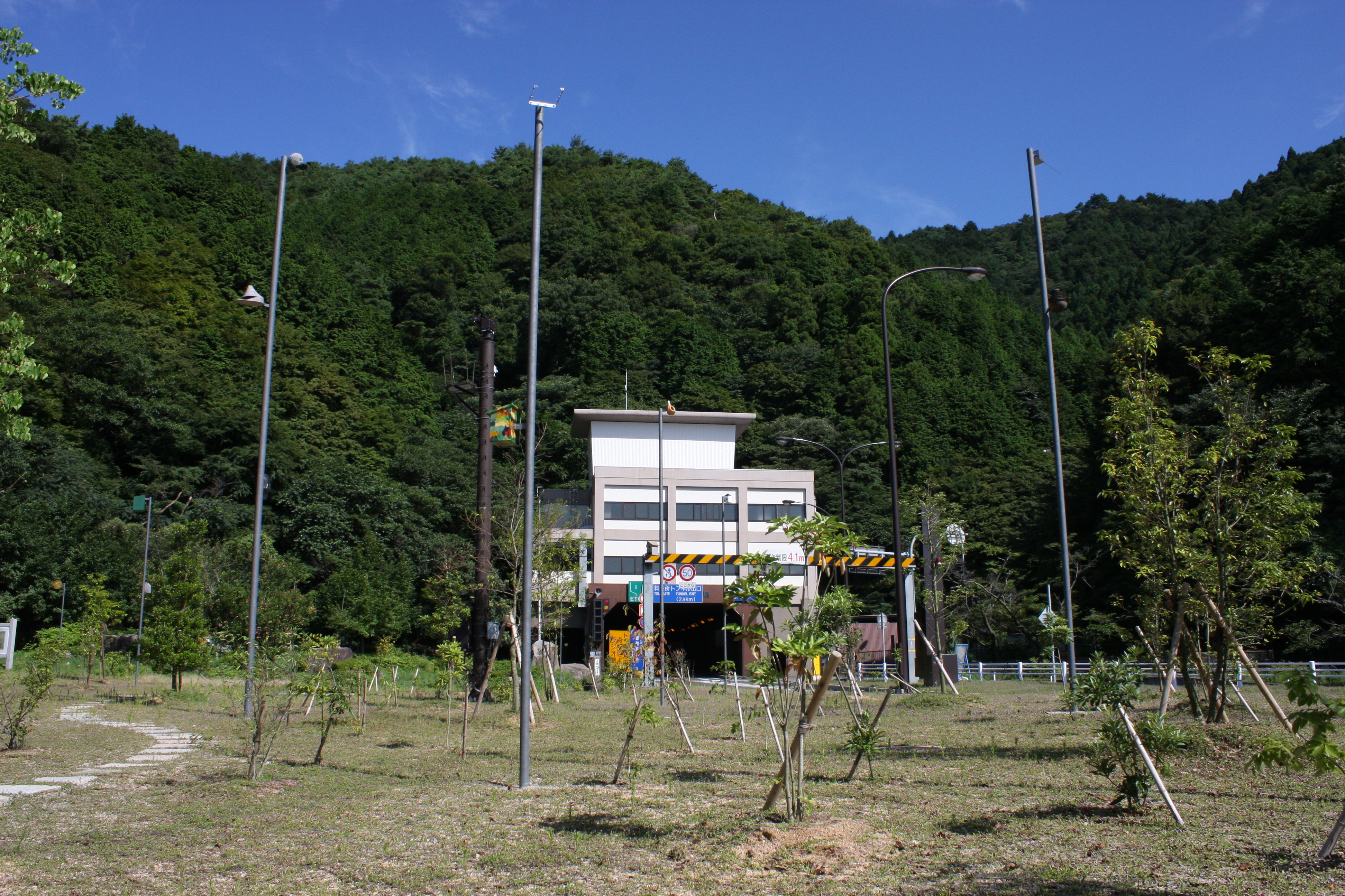 Rokkosan Tunnel south portal